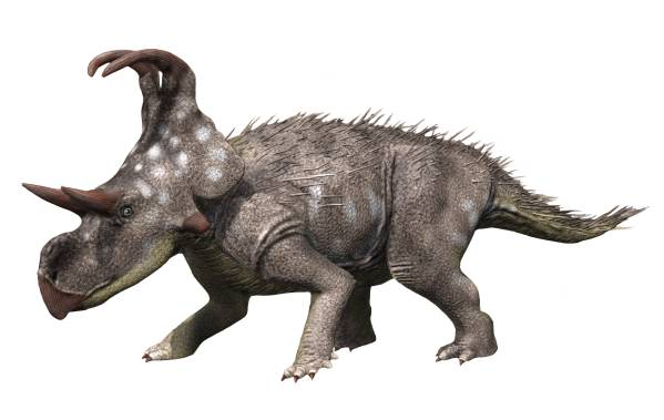 Machairoceratops cronusi